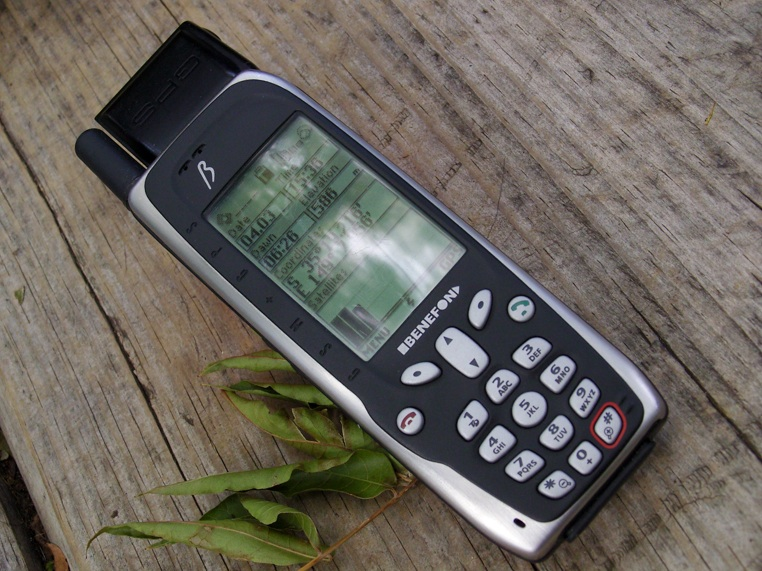 Benefon Esc! I took this photo of the Benefon Esc handset today. Author is me, all rights released.